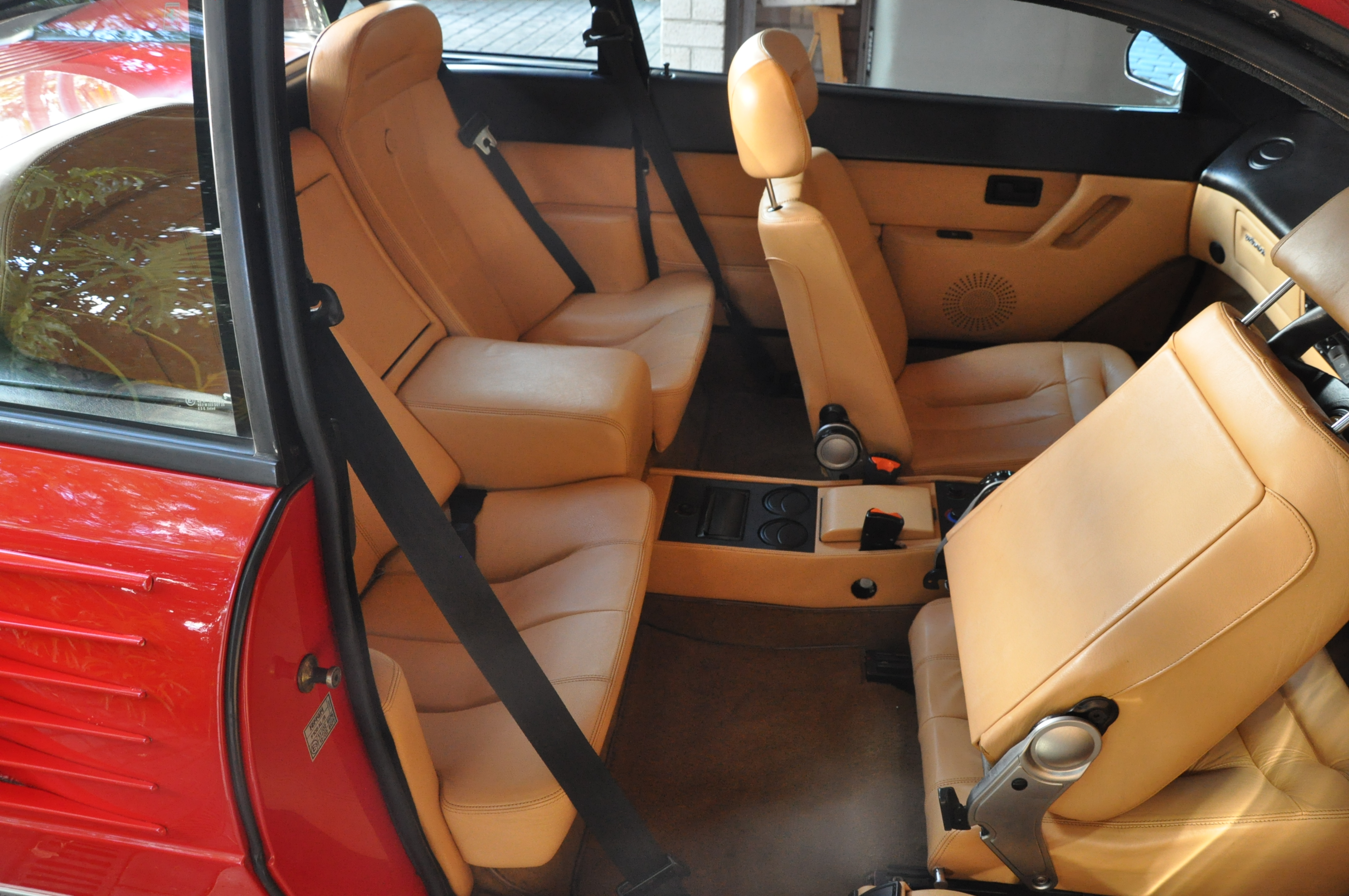 Ferrari Mondial 3.2 Coupe 1988, rear-interior view